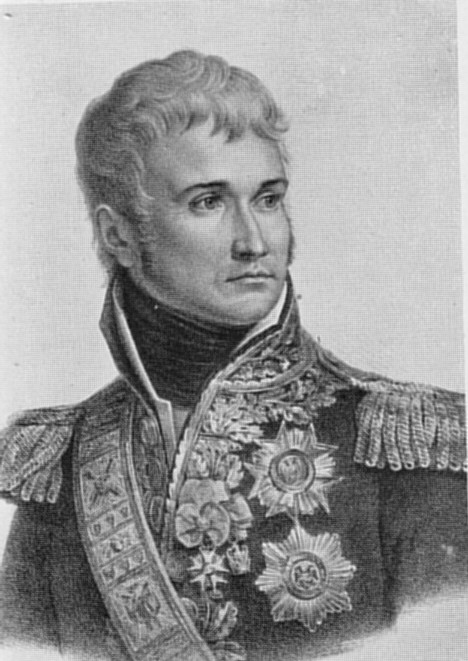 Jean Lannes (1769-1809)